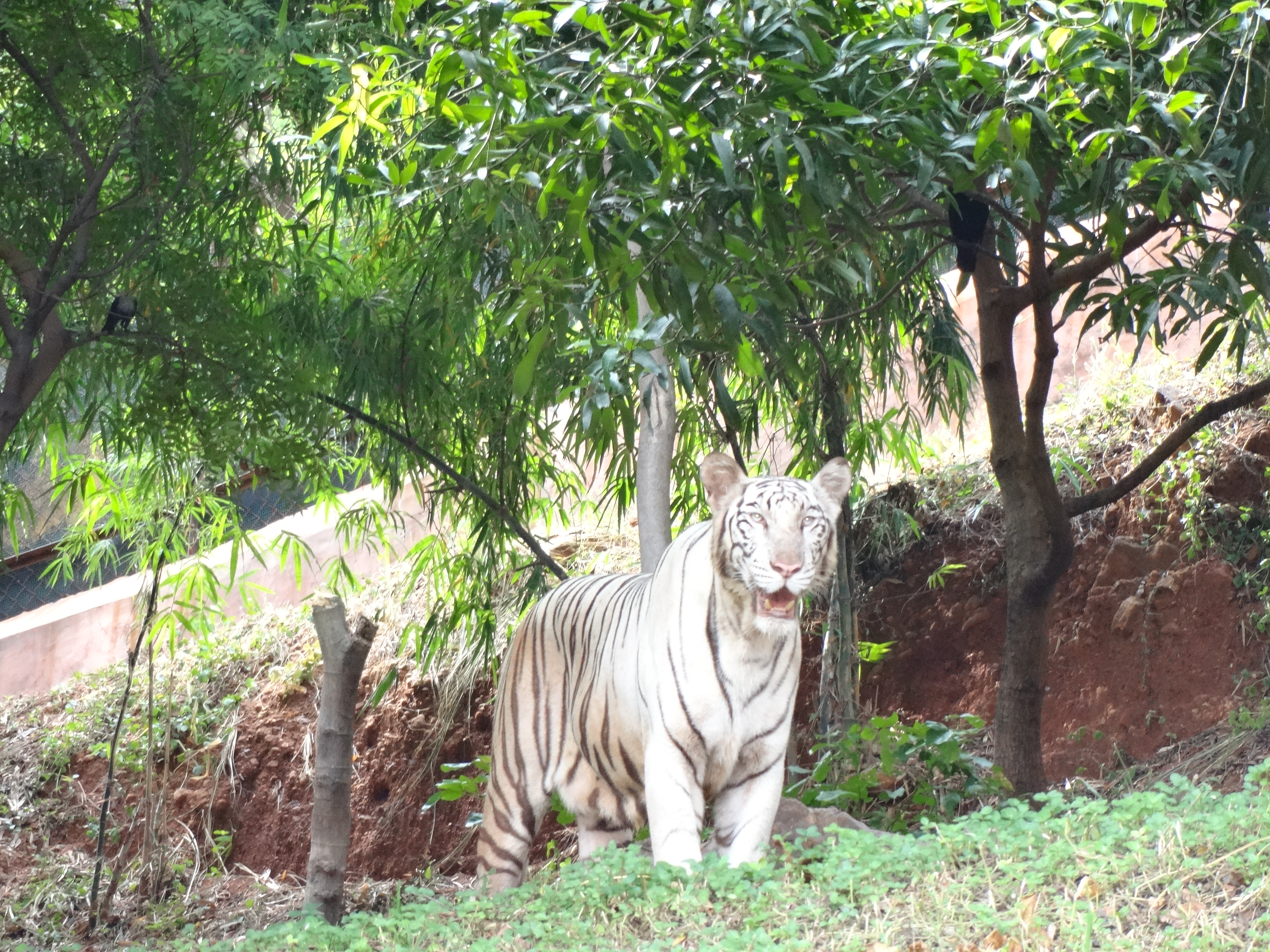 Indira Gandhi Zoological Park White tiger